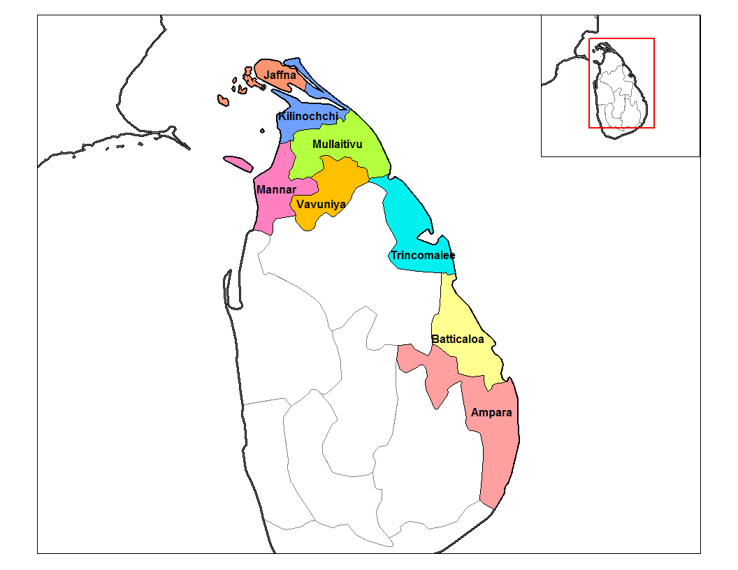 Map of the districts of North Eastern province in Sri Lanka. Created by Rarelibra 12:56, 19 September 2006 (UTC) for public domain use, using MapInfo Professional v8.5 and various mapping resources.